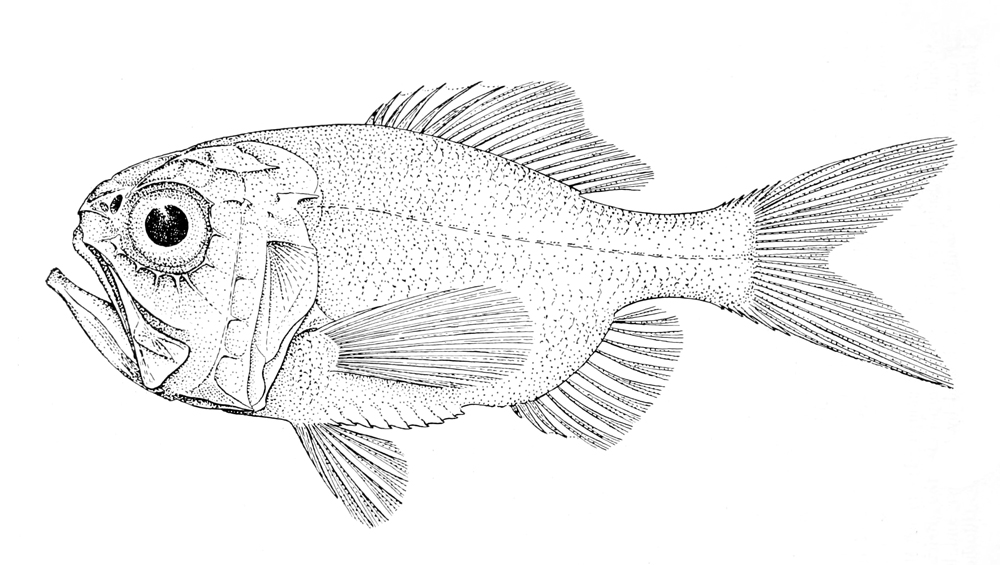 Hoplostethus intermedius